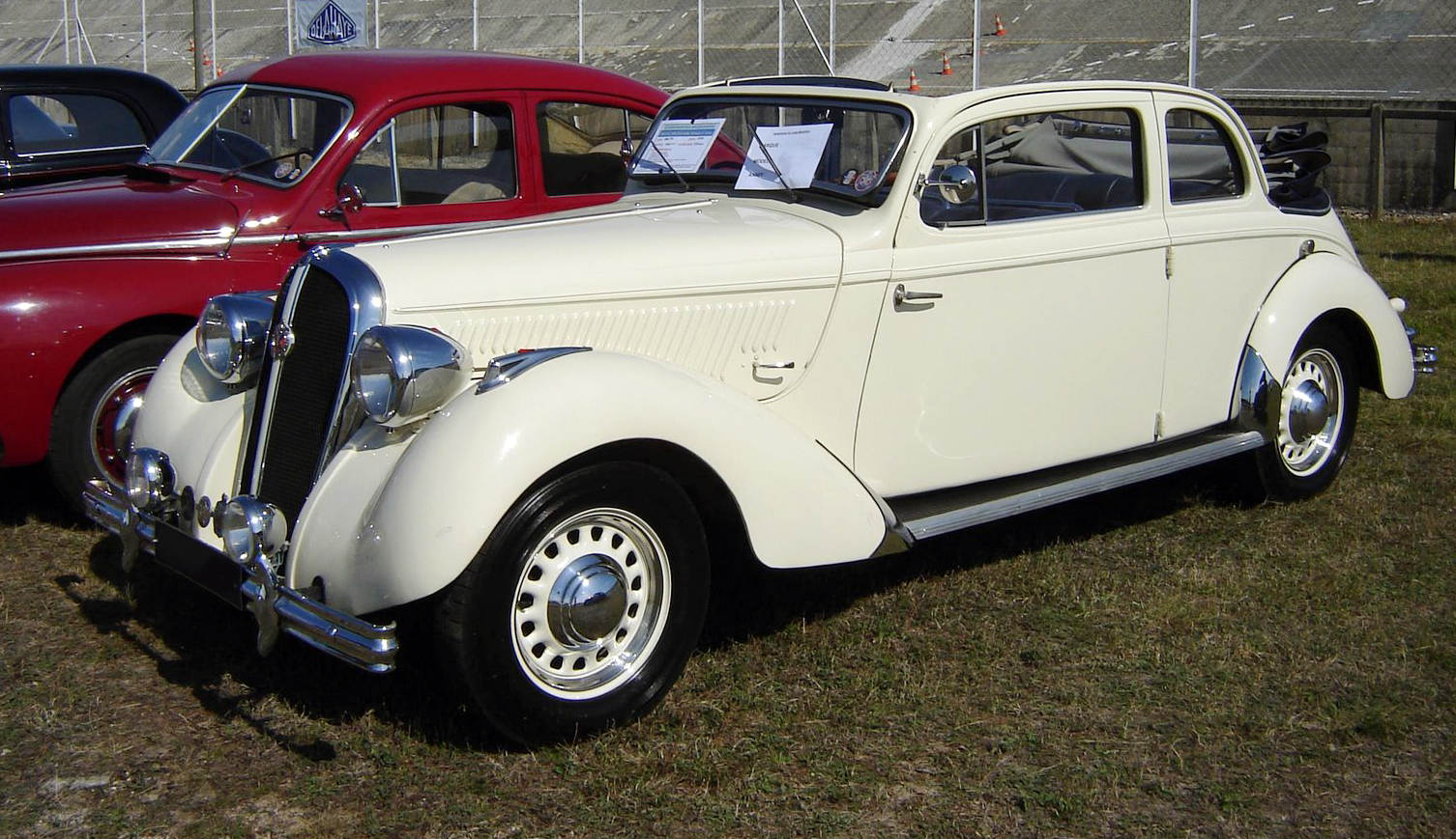 1939 Hotchkiss 686 PN Monte-Carlo (#81828) at Montlhéry